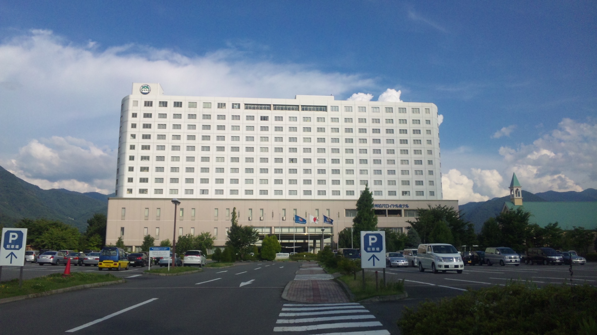 Shinshu-Matsushiro Royal Hotel